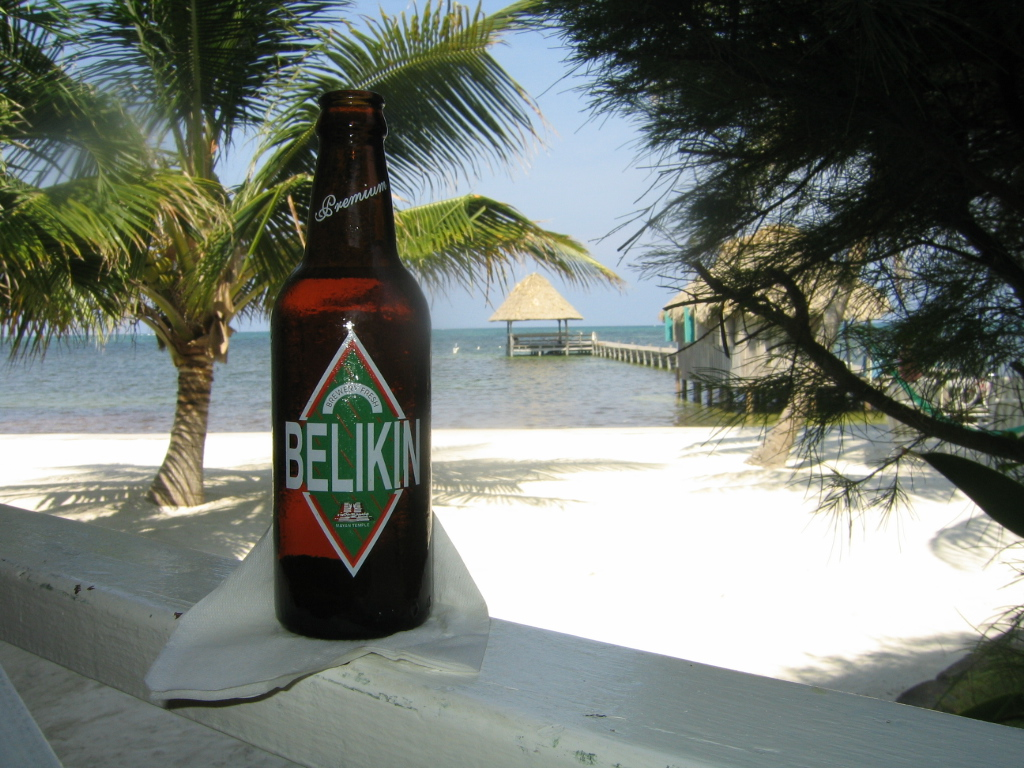 A picture of Belikin Beer, a beer of Belize. Belikin is the national beer of Belize. We started out our stay by trying a few. I thought the stout was quite good. I had just a few during our time in the country.Belikin Dark